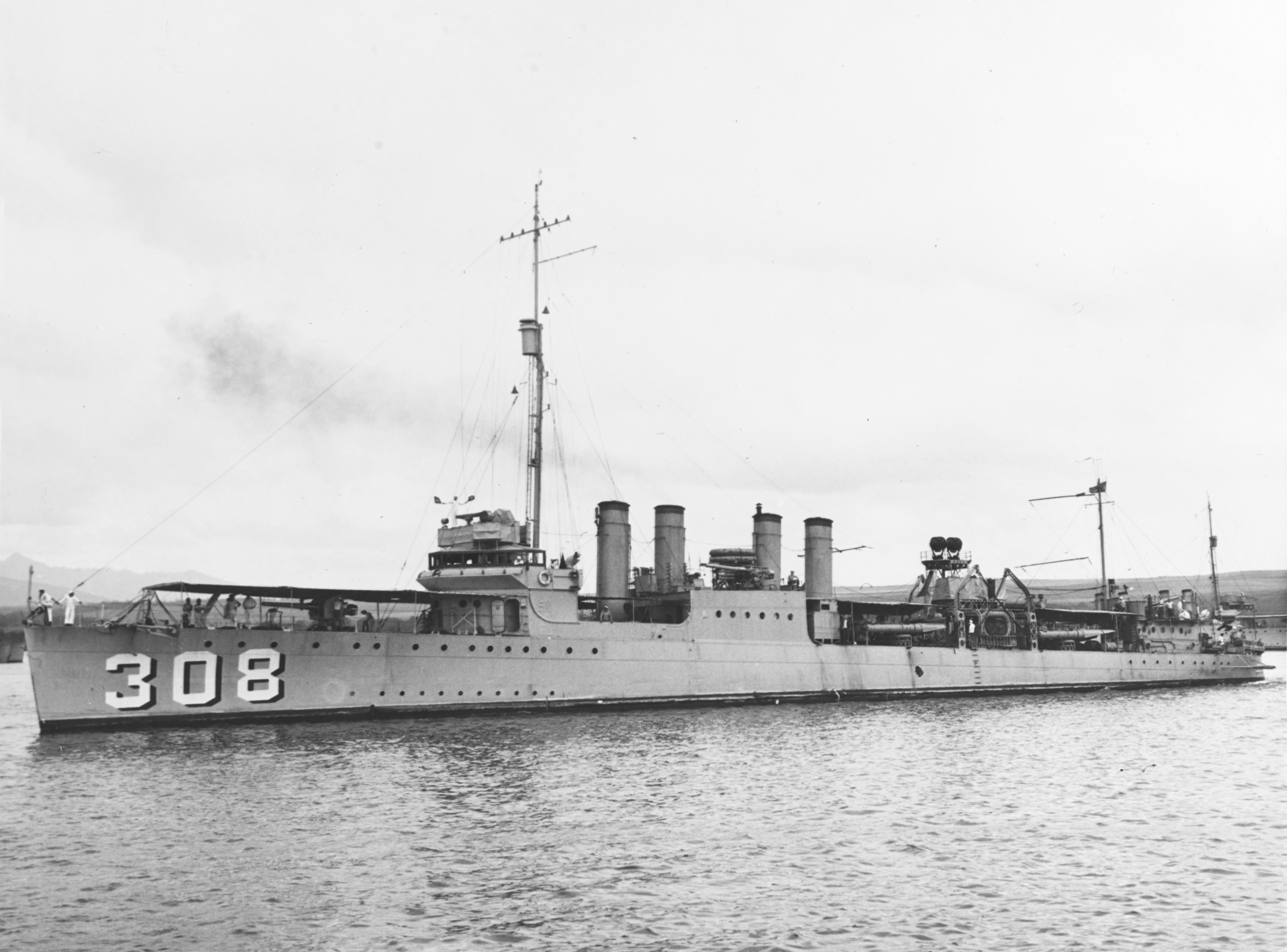 The U.S. Navy destroyer USS William Jones (DD-308), during the 1920s.